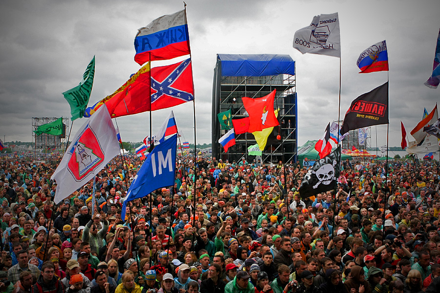 Nashestvie Rock Festival, 2008, audience was around 100,000. Note how many people wear green raincloaks. It was a very rainy Nashestvie.